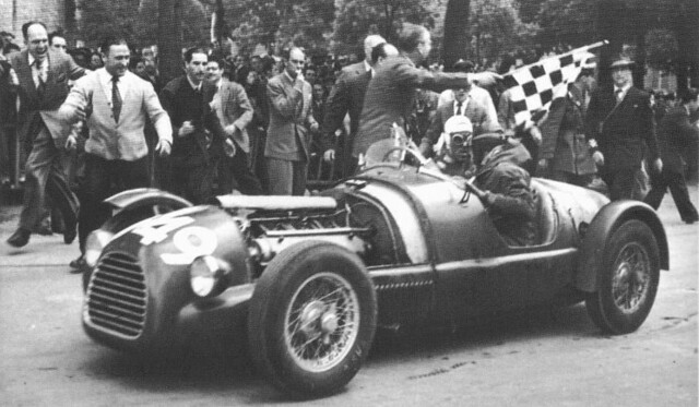 Entry #1049 at Mille Miglia on 2–3 May 1948 was the 1948 Ferrari 166 C s/n 006i. We see driver Tazio Nuvolari yelling at co-driver Sergio Scapinelli, because they did not finish [1] so not sure why they seem to be on the finish line? Apparently, the bonnet had flown off, nearly hitting both drivers, and the seat was replaced by a sack of lemons? [2]